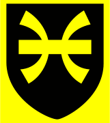 SCLI Osnabruk Formation Patch